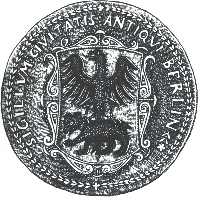 Seal of Berlin from 1700.